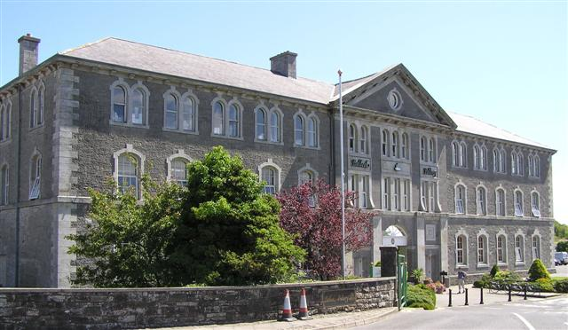 Belleek Pottery, County Fermanagh. A world famous pottery